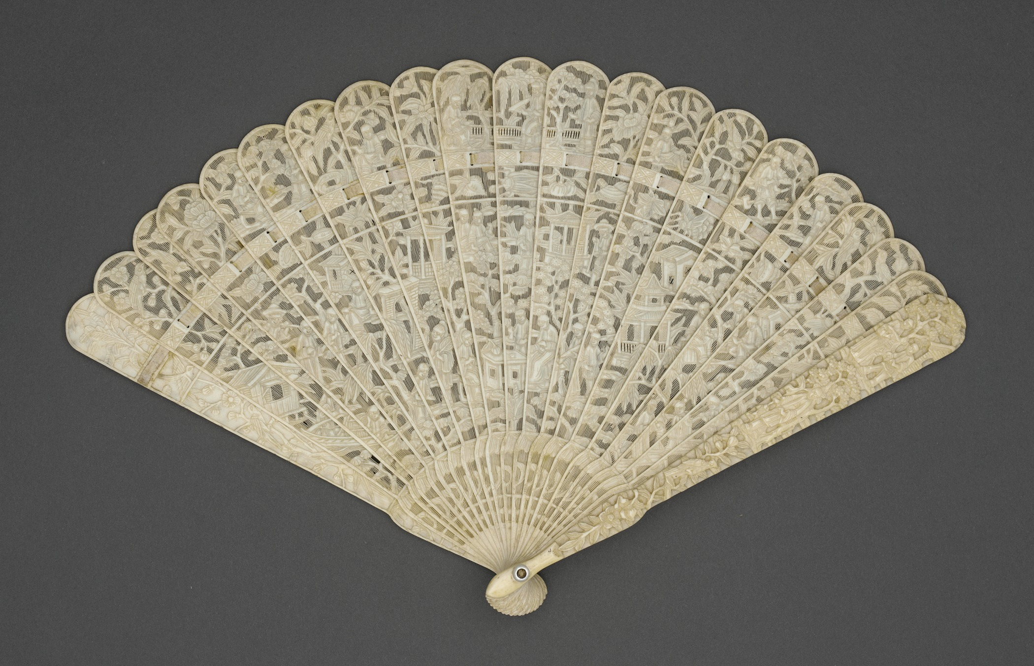 China, circa 1800 Costumes; Accessories Ivory sticks, mother-of-pearl button, brass metallic rivet Evangeline D. Walker Bequest (M.78.108.10) Costume and Textiles